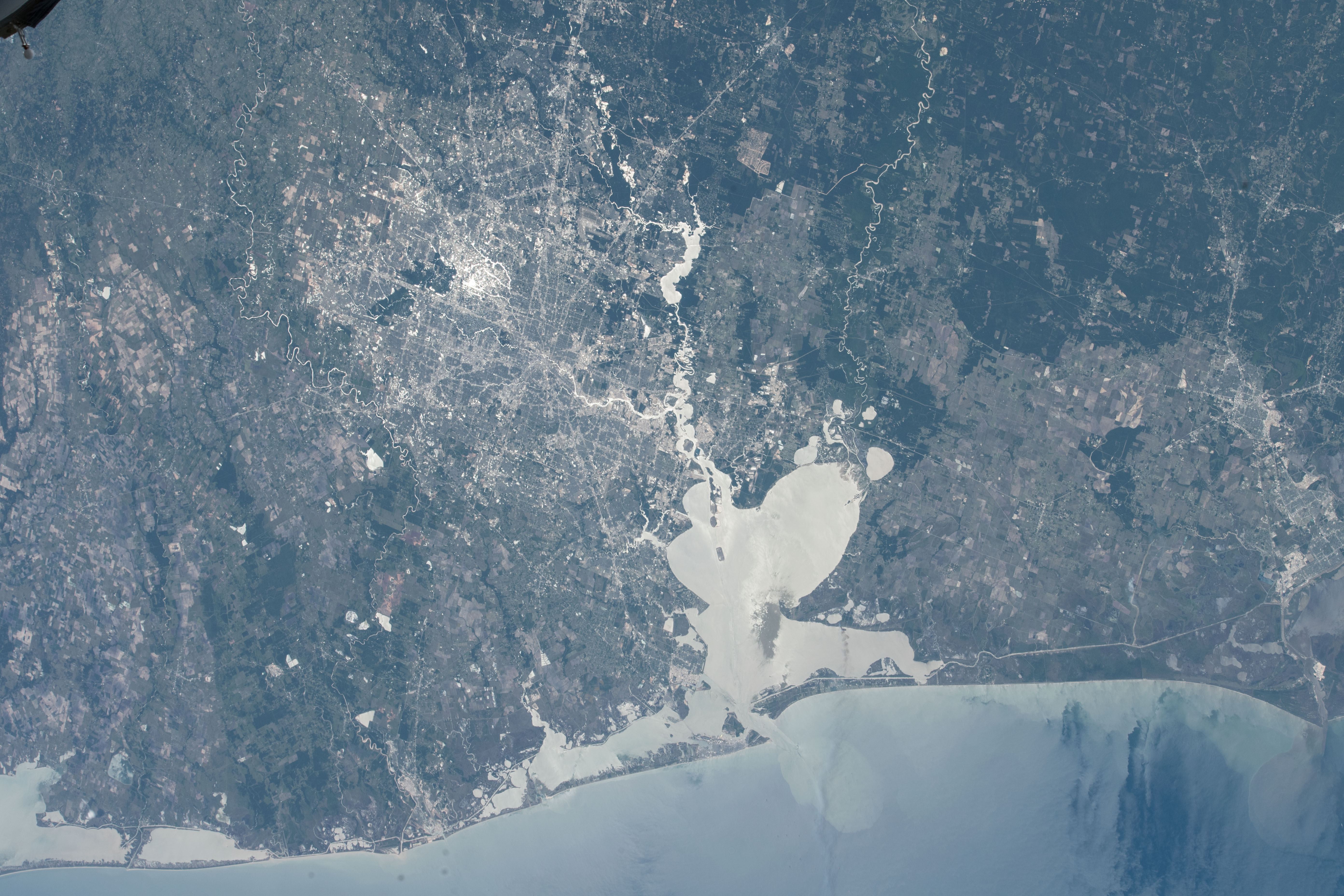 Houston, Texas, the home of NASA's Johnson Space Center, and Galveston Bay are pictured from the space station at an altitude of about 250 miles.